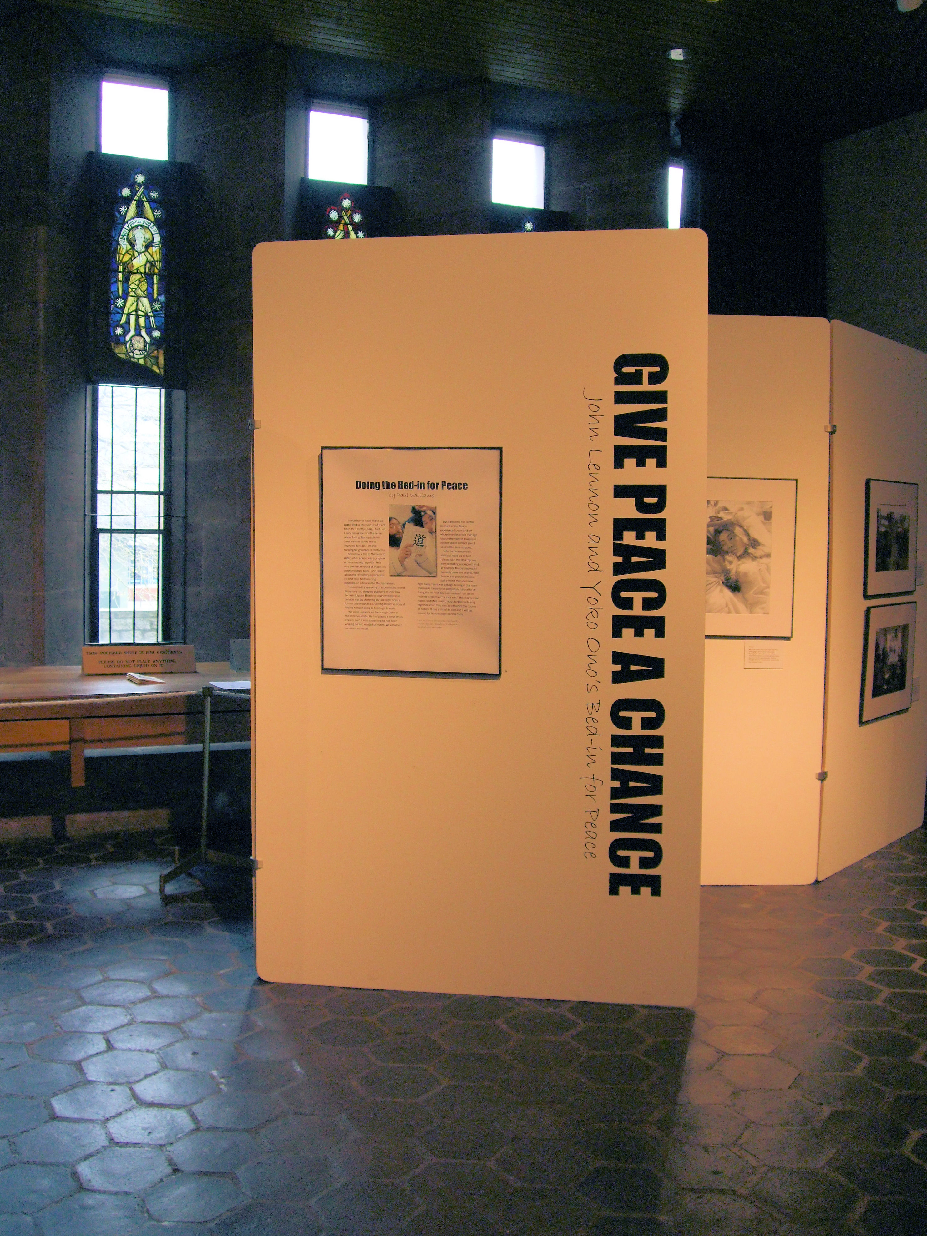 A photographic exhibition, remembering John and Yoko's famous Montreal Bed-In for peace.